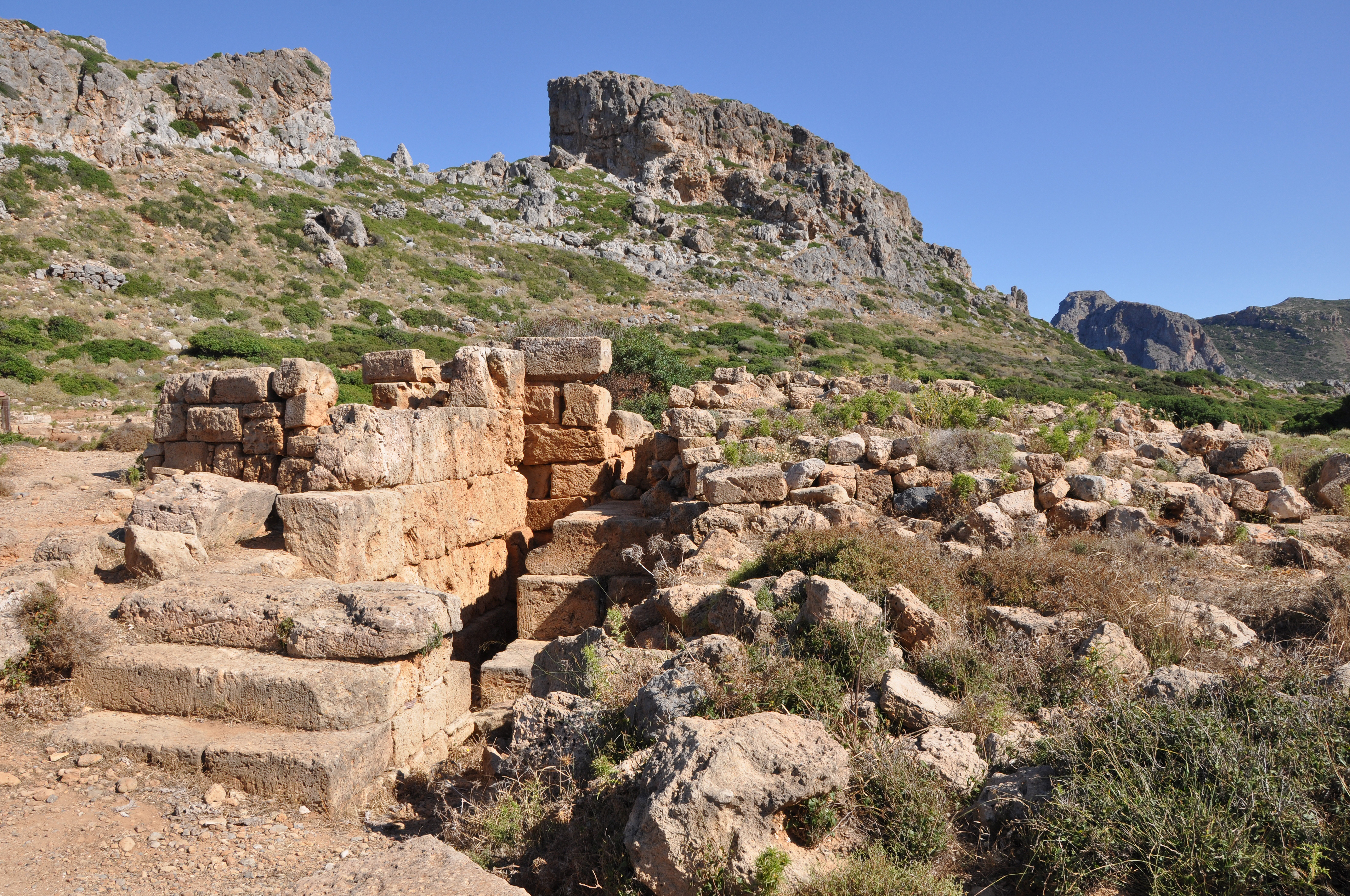 Phalasarna (Crete, Greece): ancient ruins